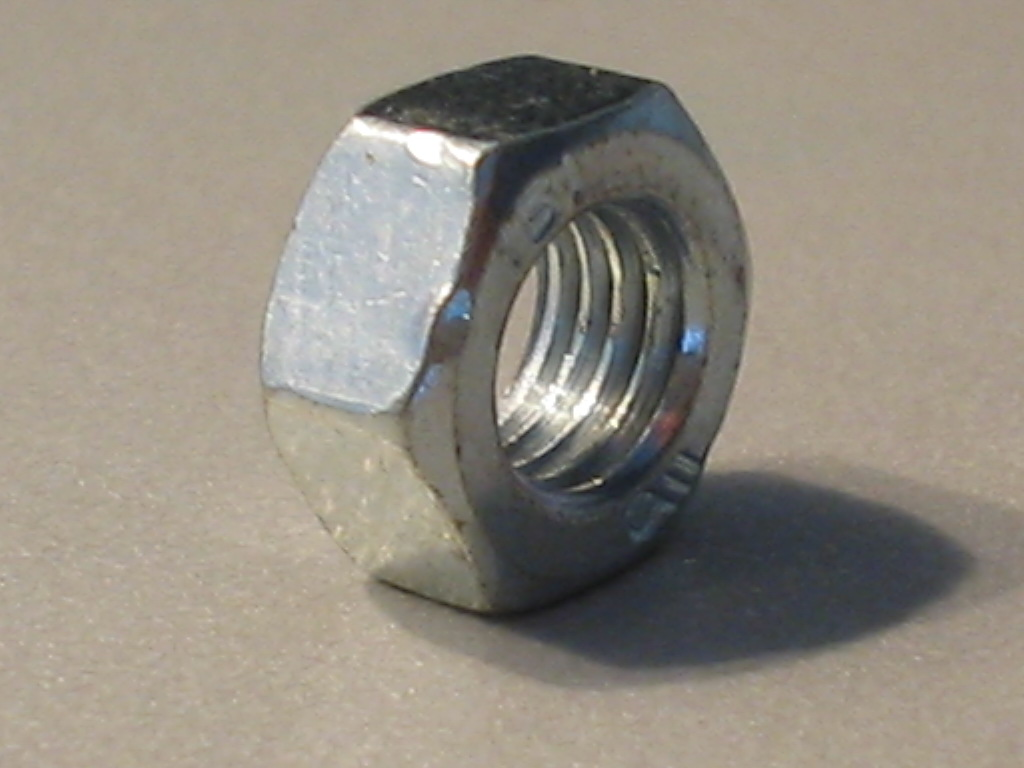 A nut